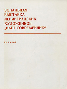 Cover of the catalog of Zonal Exhibition of works by Leningrad artists of 1975